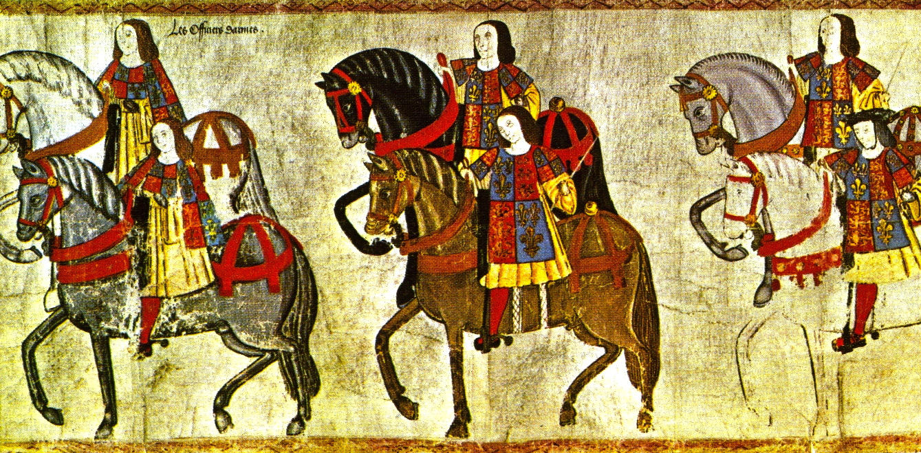 A group of English officers of arms from a tournament book of the reign of Henry VIII of England. The pursuivants to the left are identified by their reversed tabards.